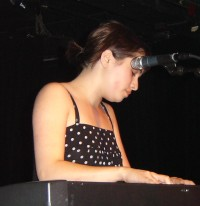 photo of Anousheh Khalili, taken by me, 25 June 2006 at the Black Cat nightclub, Washington DC